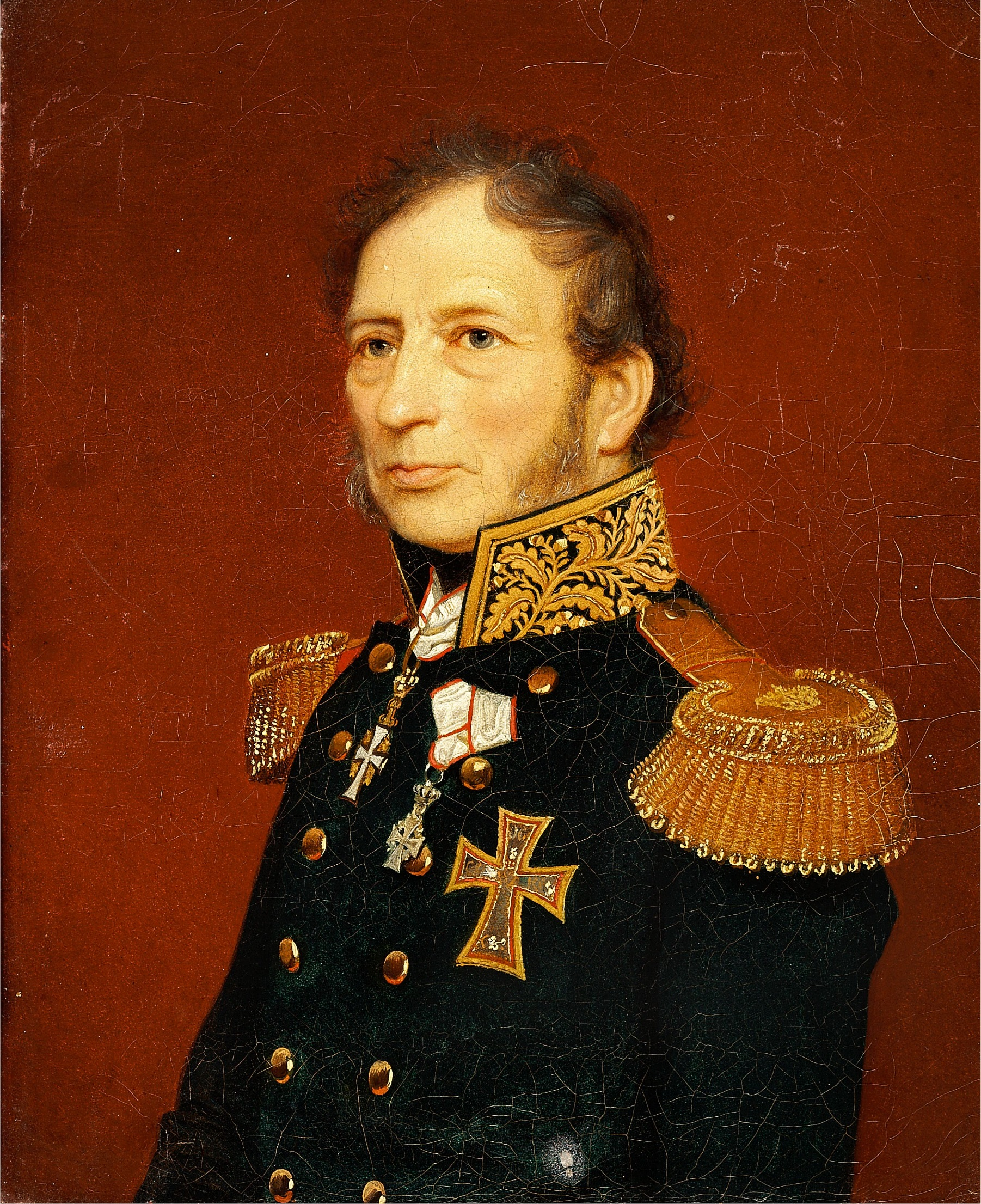 Frederik Sporon (1783-1867), Danish jurist and district officer